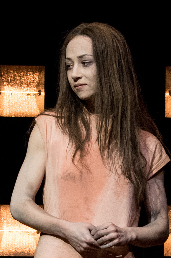 Aenne Schwarz, Antigone by Sophokles, Burgtheater Wien, 2015